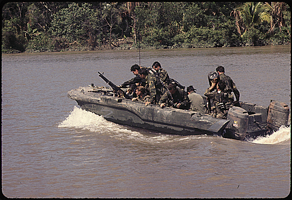 Members of U.S. Navy SEAL Team One move down Bassac River (Mekong-Delta) in a SEAL Team assault boat, South Vietnam, November 19, 1967.